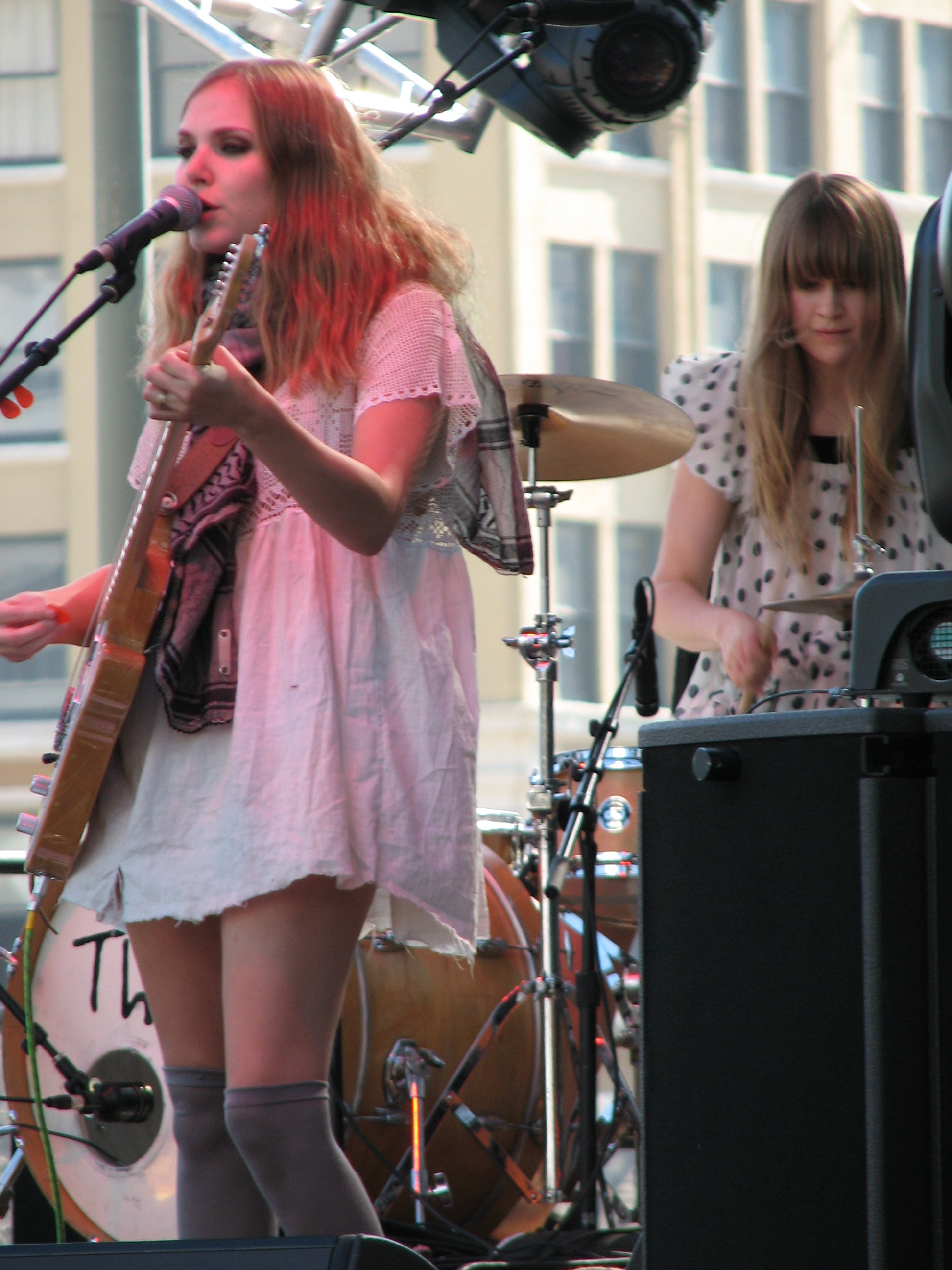 The Like on Detour 2006